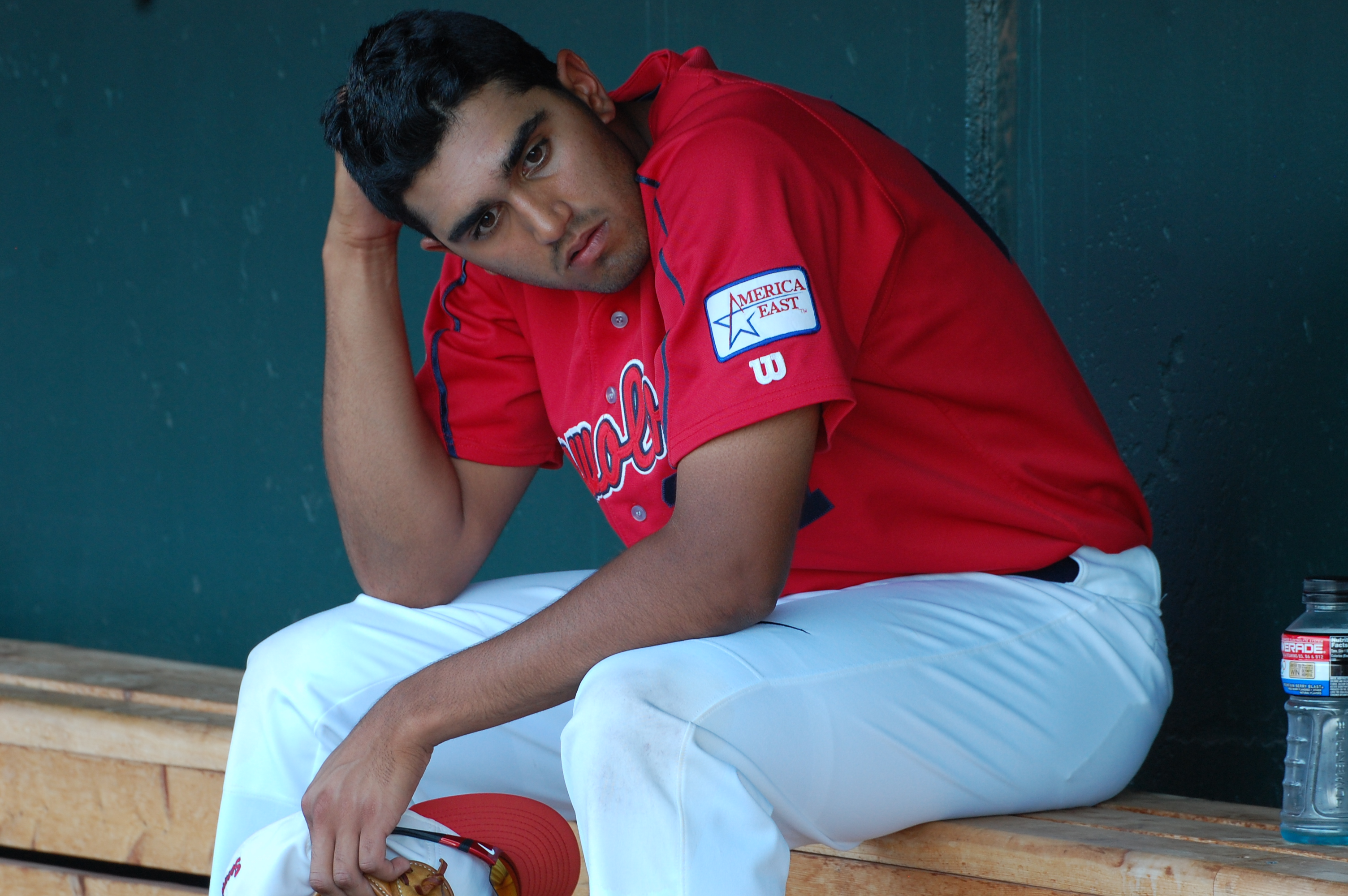 Stony Brook University pitcher Jasvir Rakkar sits in the dugout after his team was eliminated from the 2012 College World Series.